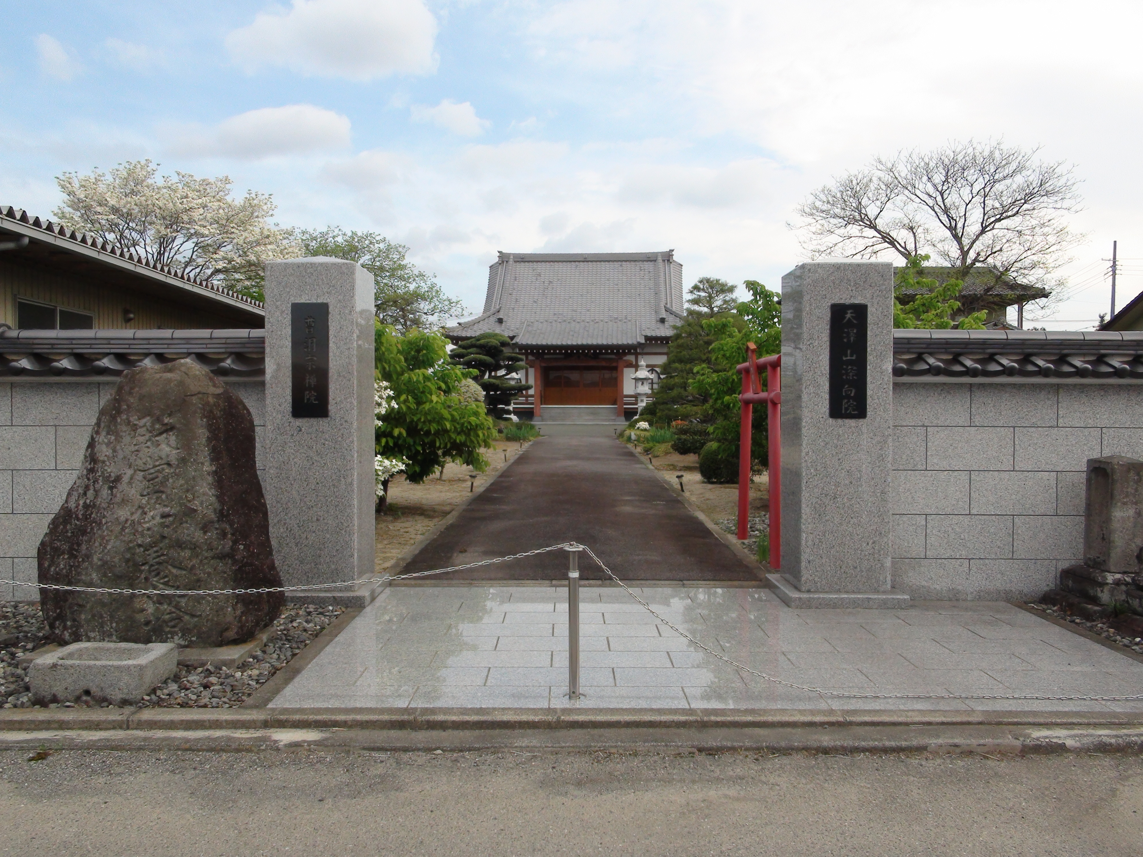 Shinkoin Temple gate Minami-alps,Yamanashi